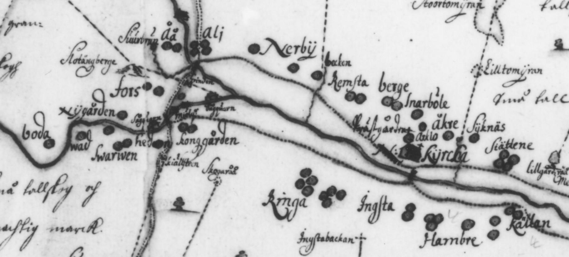 Lantmäteriet, Sweden, from a photograph of a map of Norrala parish by J. Werwingh (act no. V37-1:3) from 1699, purchased for publishing